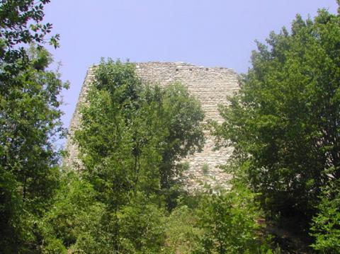 Magyaregregy- castle, Hungary, aerialphotography